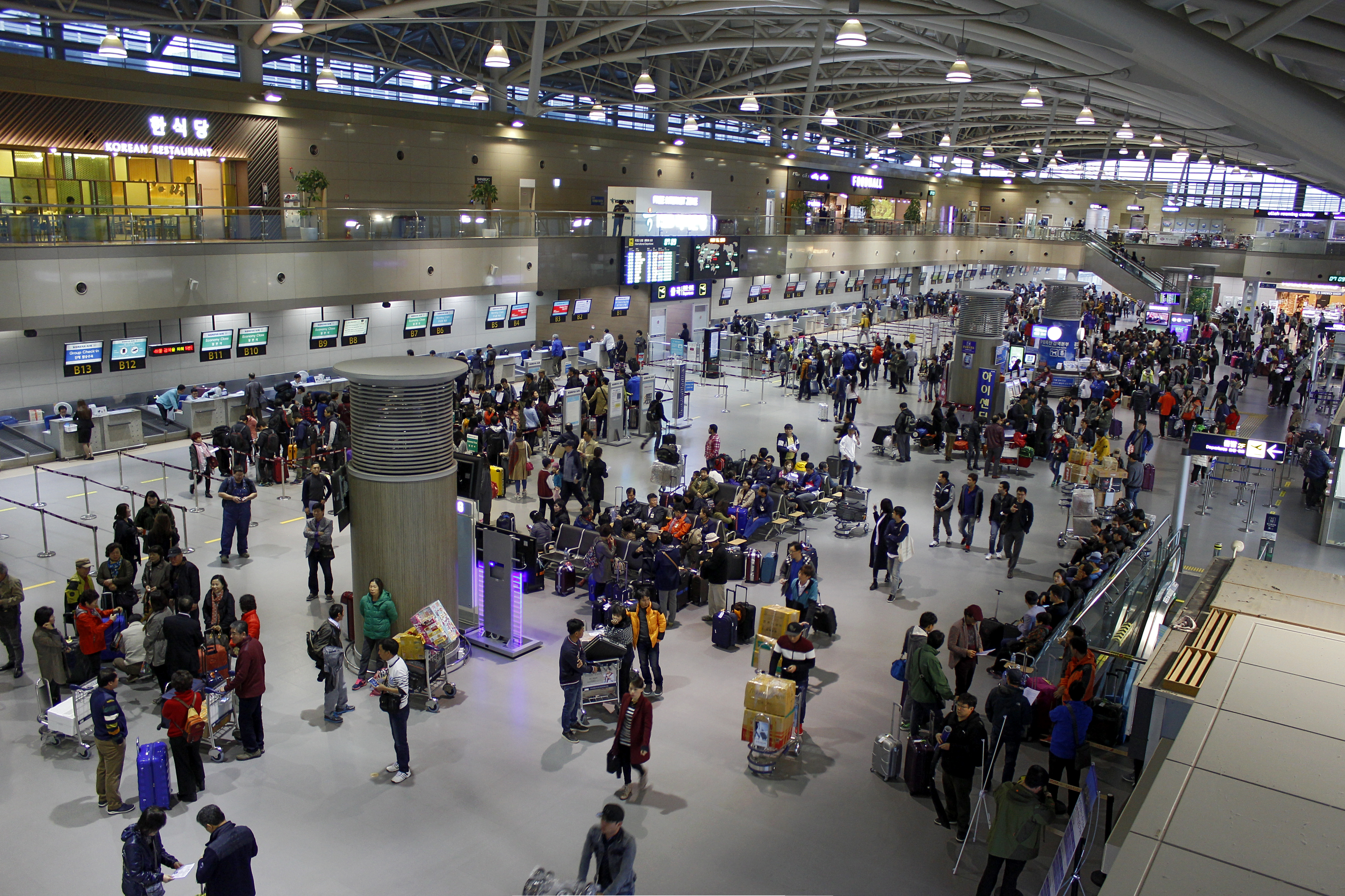 Gimhae International Airport Departure Hall